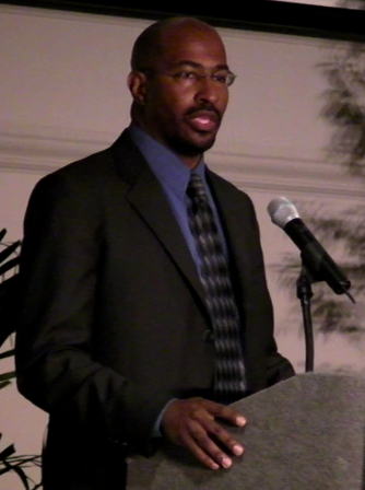 Van Jones speaking at the 2008 Dream Reborn Conference in Memphis, TN. Digital still taken from motion video created by Sanyo Xacti HD1000.